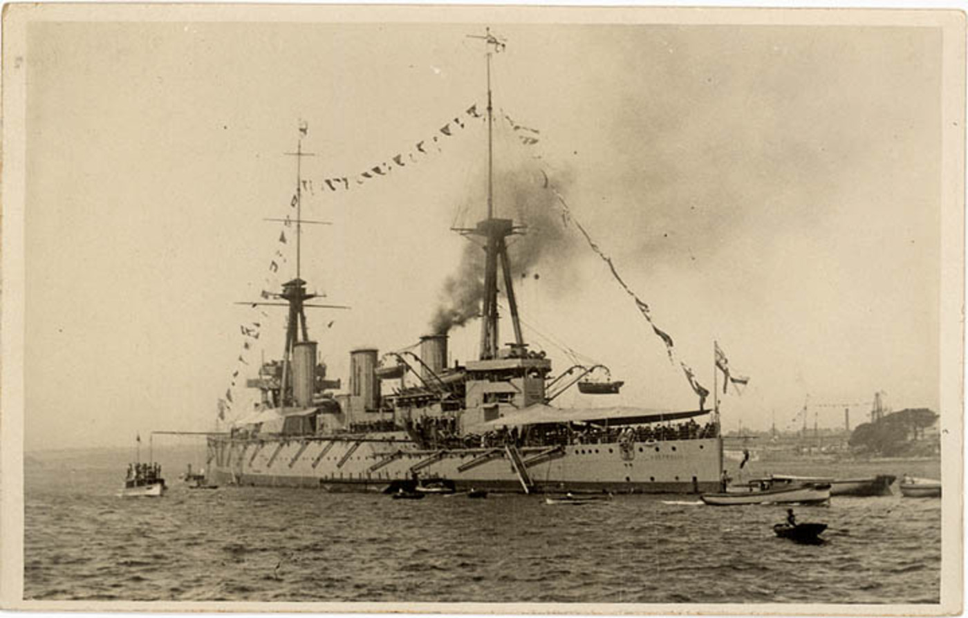 Flagship of the Royal Australian Navy, HMAS Australia, Sydney Harbour, between 1913-1924